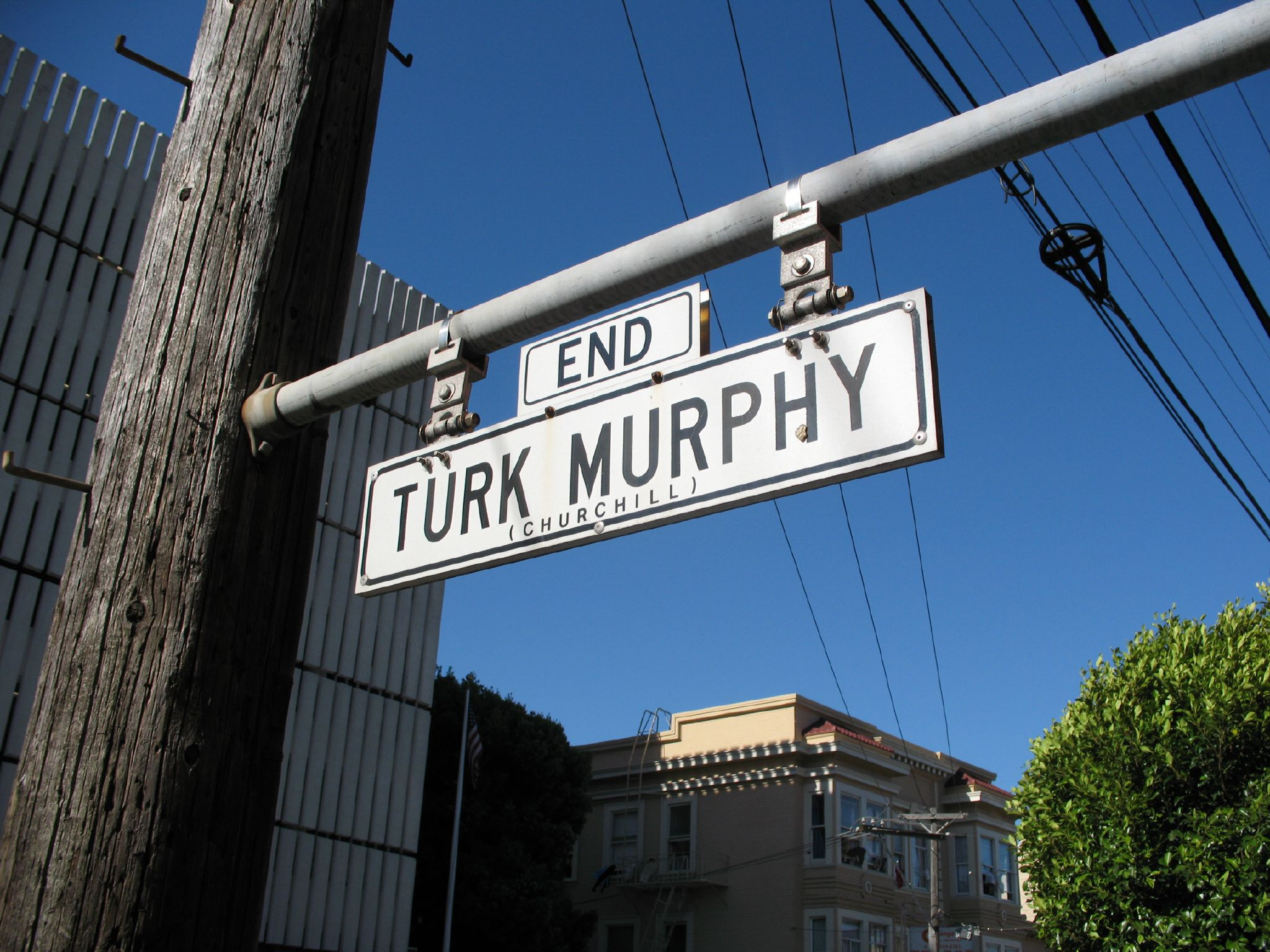 Street sign of Turk Murphy Lane in San Francisco